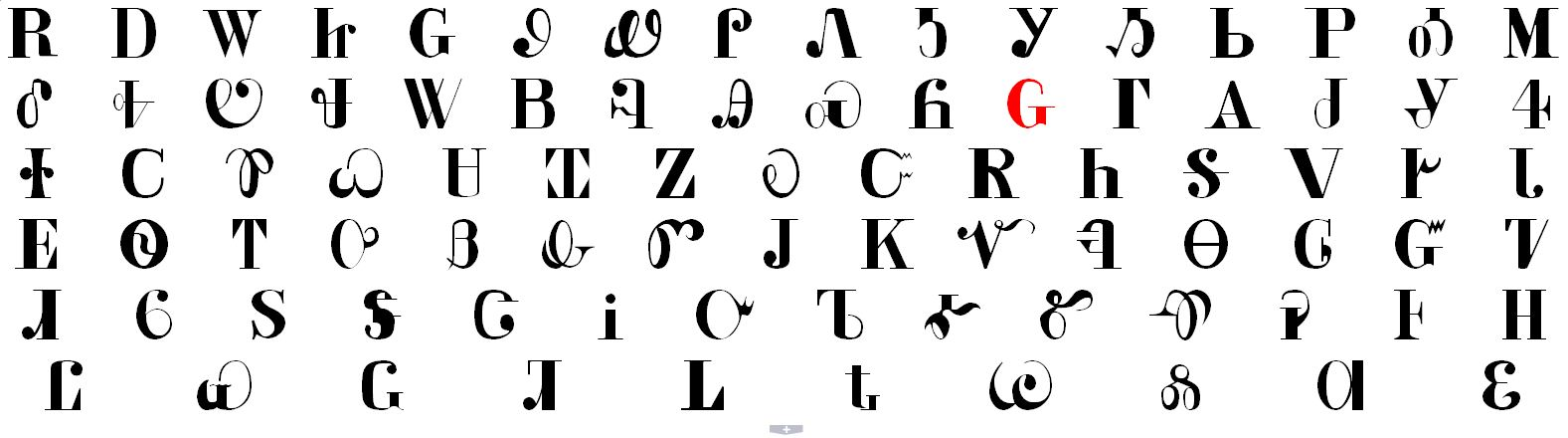 The original order of the Cherokee syllabary, invented by Sequoyah. Note: The character in red (Ᏽ, mv) is now obsolete and does not exist in the modern language.